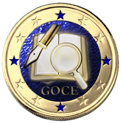 An icon consisting of a book, a fountain pen and a magnifying glass created by combining two images from the Nuvola apps set. Originally created for the WikiProject Guild of Copy Editors.